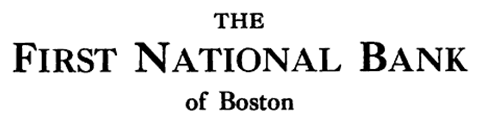 This is a historical logo and is no longer in use by its owner